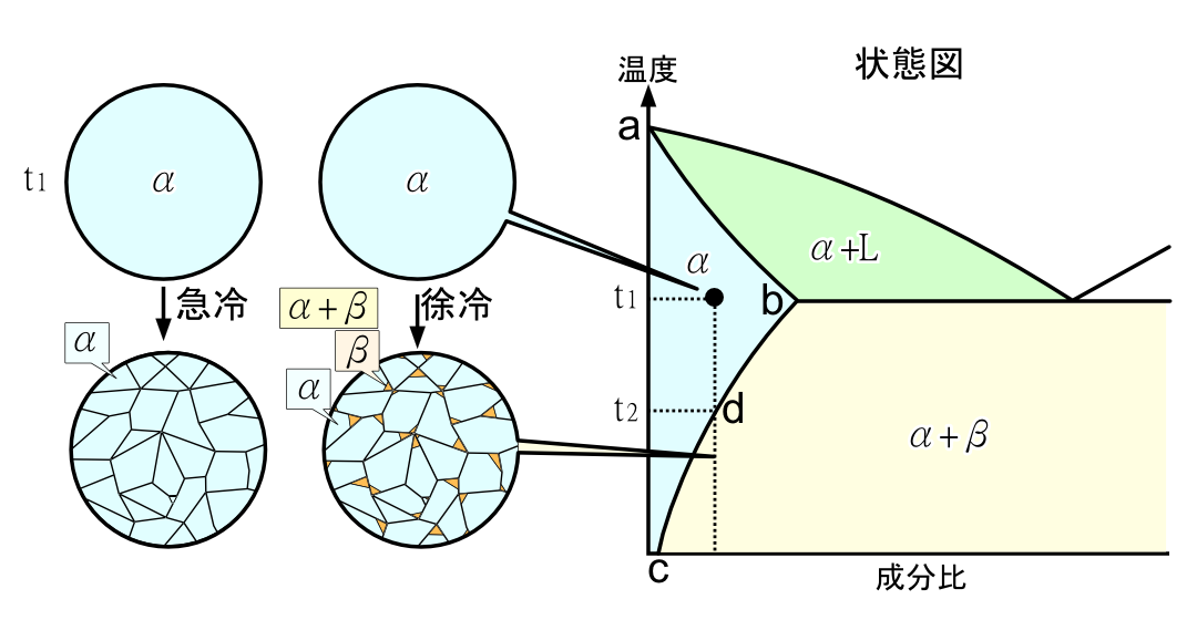 Aluminum solid solution's phase diagram